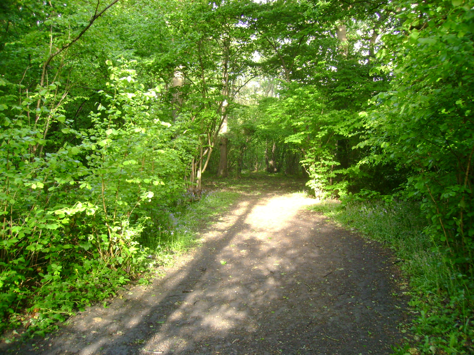 Butchers Wood is a small area of ancient woodland lying to the south of Hassocks. It is maintained by the Woodland Trust and is popular with dog walkers.